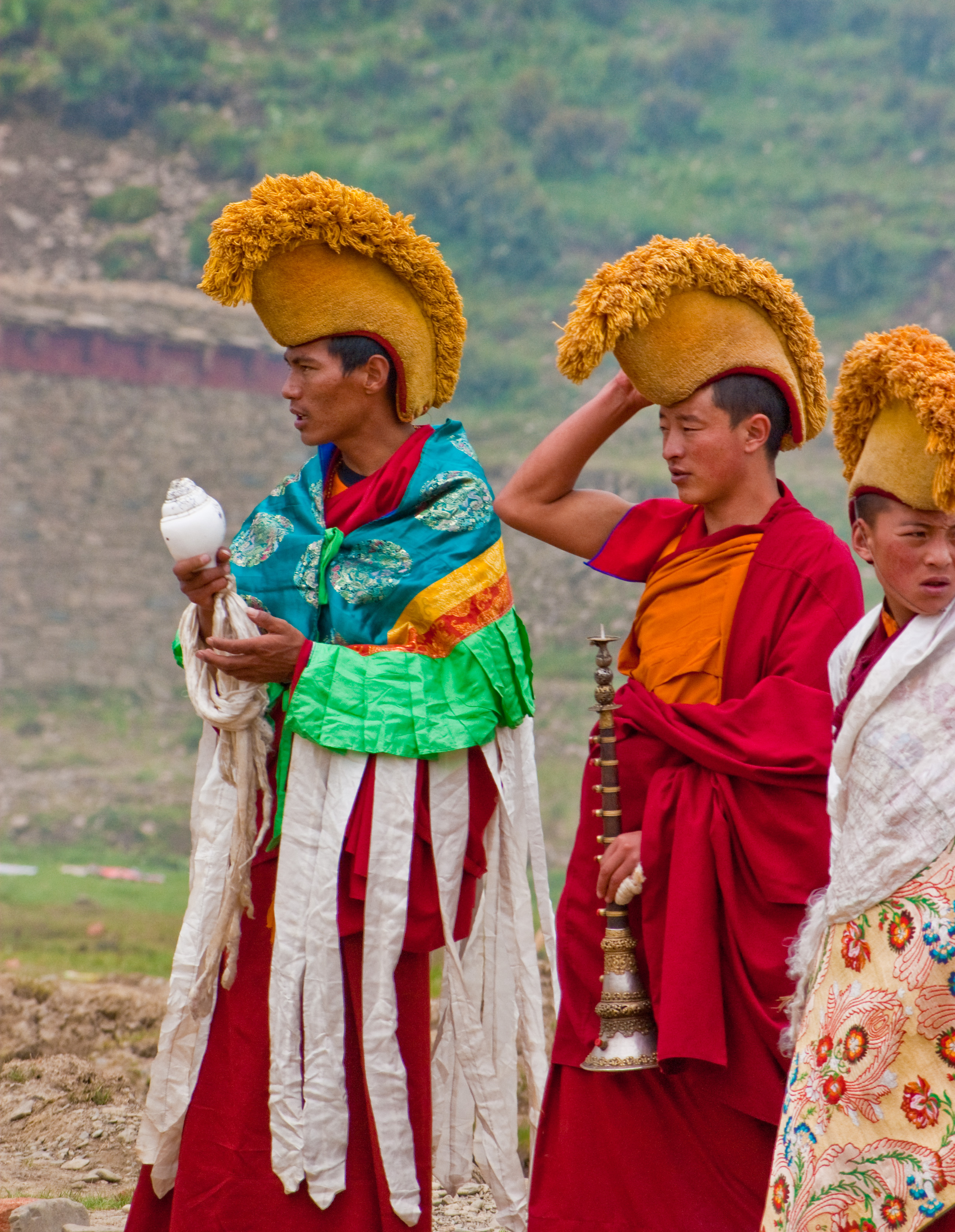 Buddhist monks of Tibet (in the Kham)